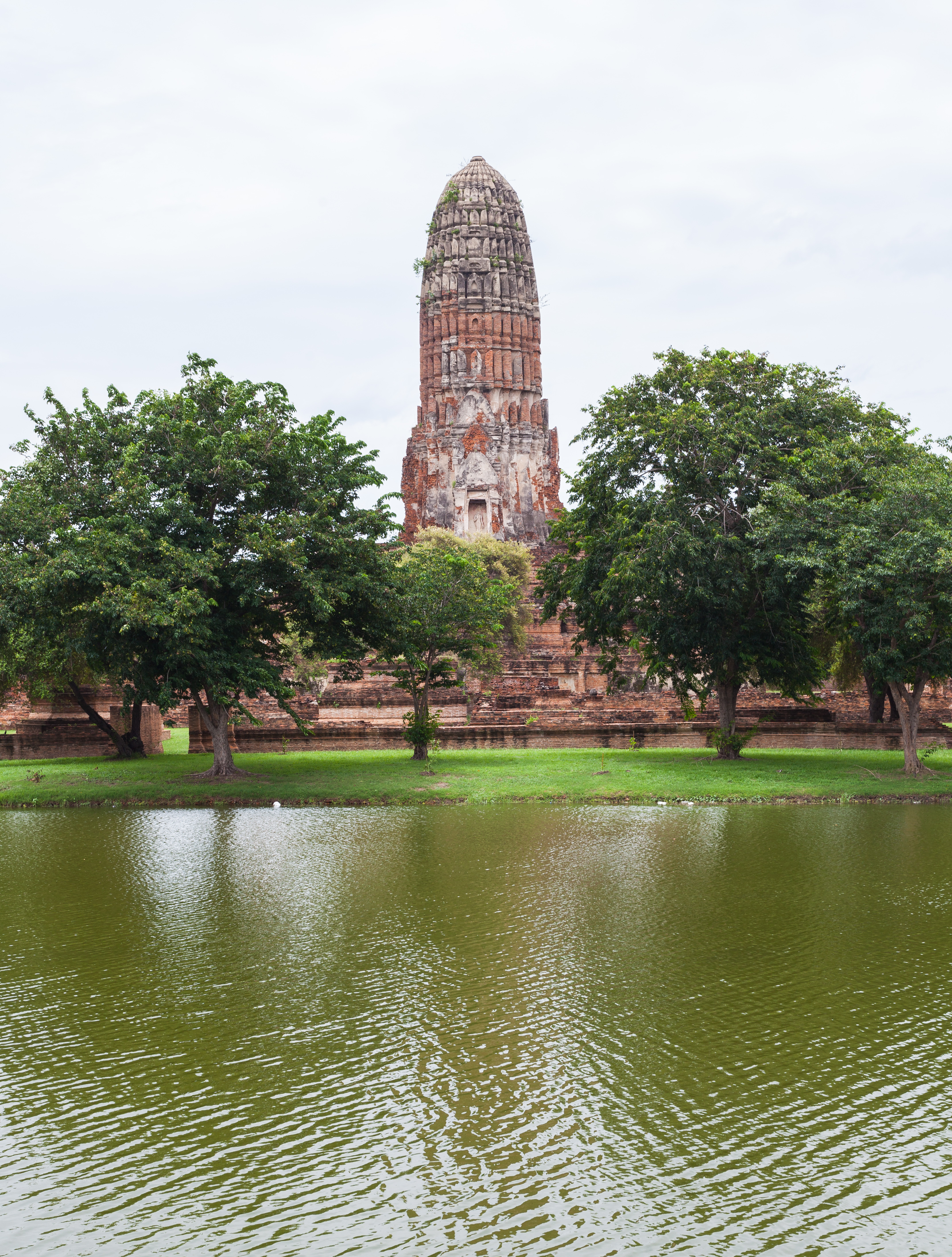 Phra Ram temple, Ayutthaya, Thailand